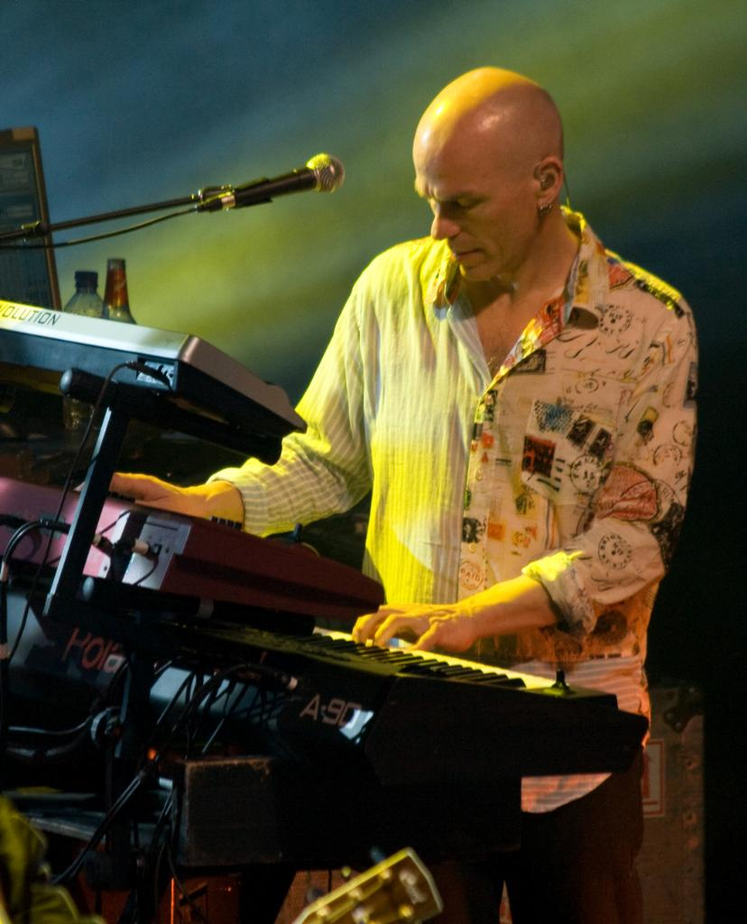 Mark Kelly onstage with Marillion at their 2009 weekend festival in Montreal, Canada.